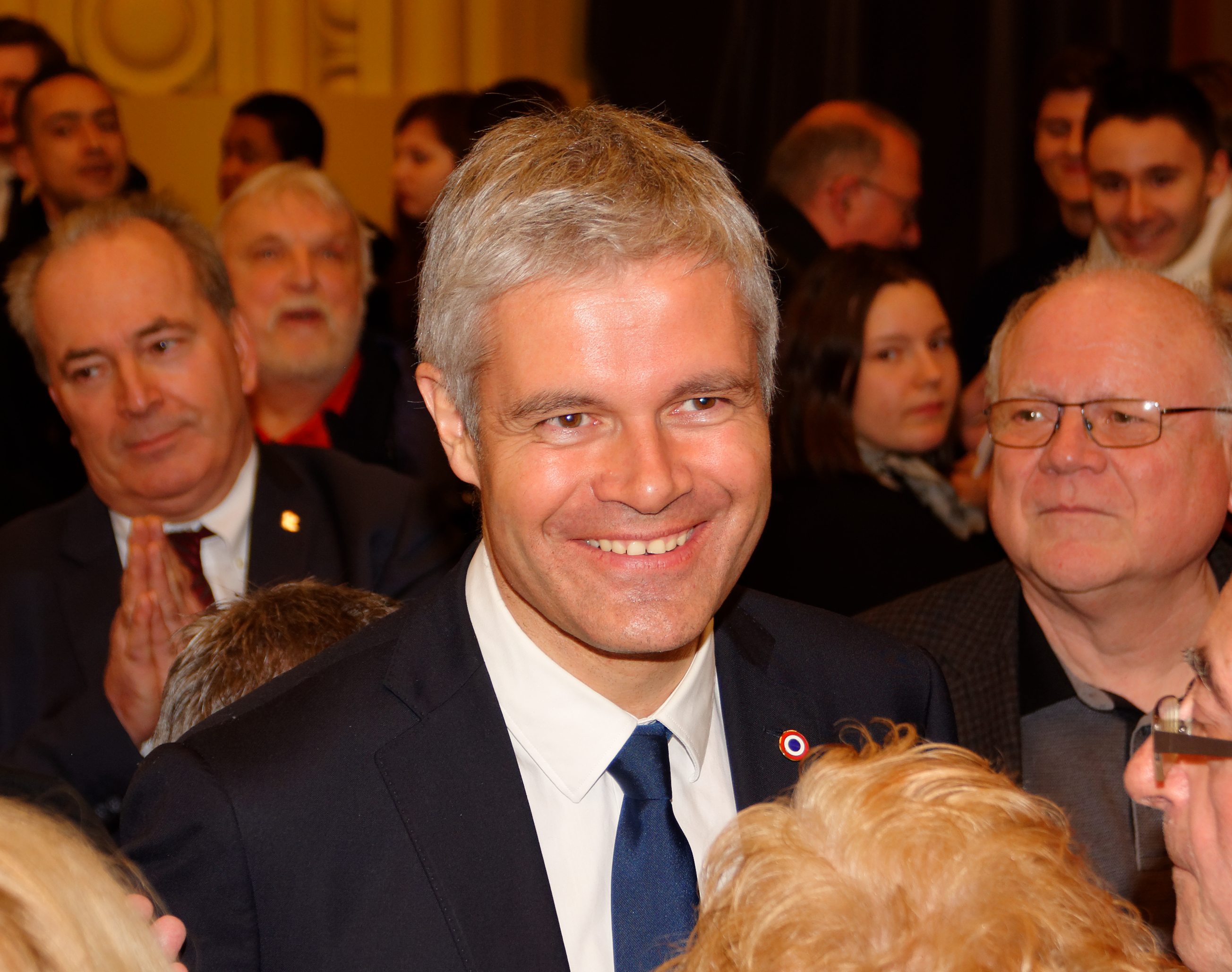 Personality rights warningAlthough this work is freely licensed or in the public domain, the person(s) shown may have rights that legally restrict certain re-uses unless those depicted consent to such uses. In these cases, a model release or other evidence of consent could protect you from infringement claims.